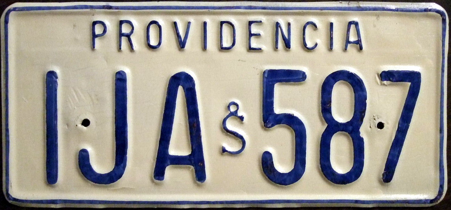 Undated Chilean plate from Providencia. I am not sure why this plate is undated but I presume it may have been issued after the 1980's or it is a special type.